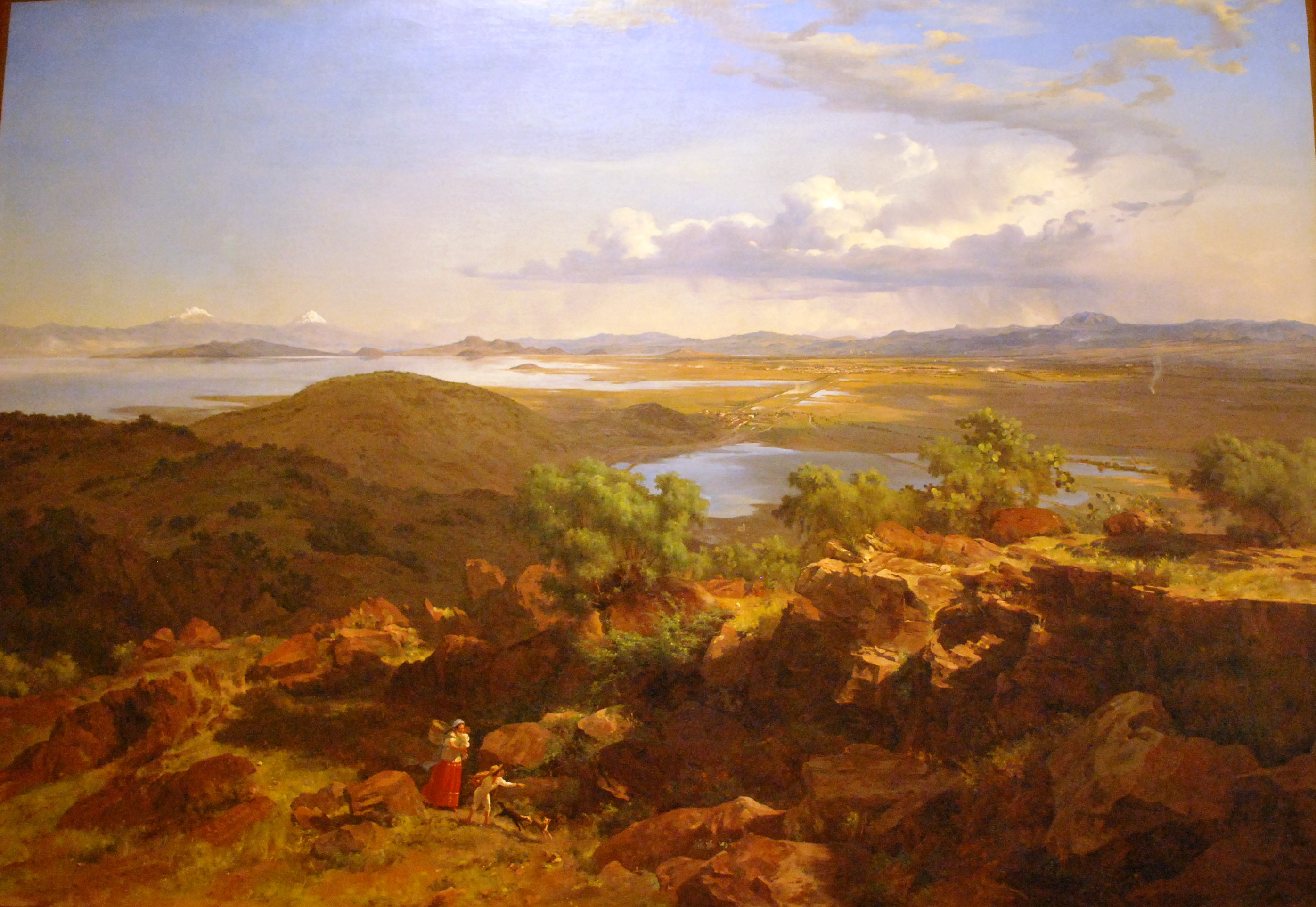 "Valle de Mexico desde el cerro de Santa Isabel" by José María Velasco done in 1875 on display at the Museo Nacional de Arte in Mexico City